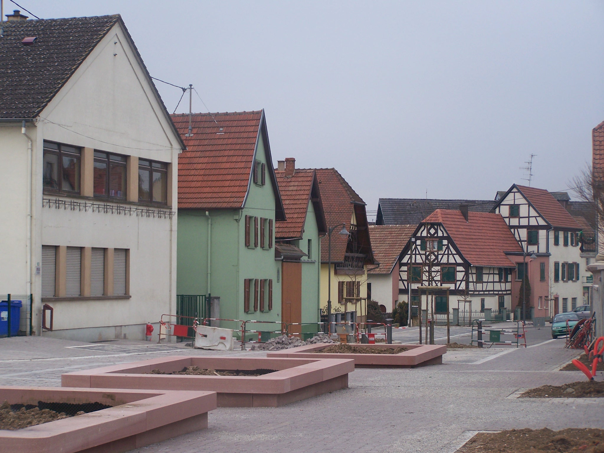 The French Alsatian commune of Mommenheim, some kilometers away from Strasbourg in winter.